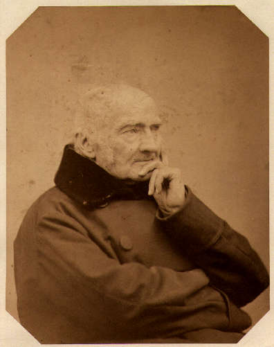 Christian Niemann Rosenkilde (1786-1861), Danish actor and writer